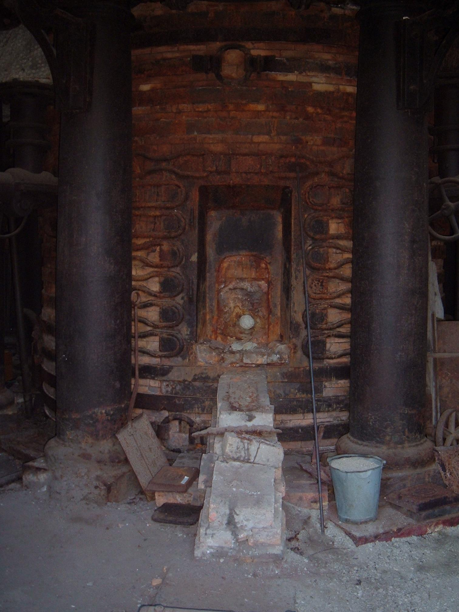 Lienshyttan in Riddarhyttan